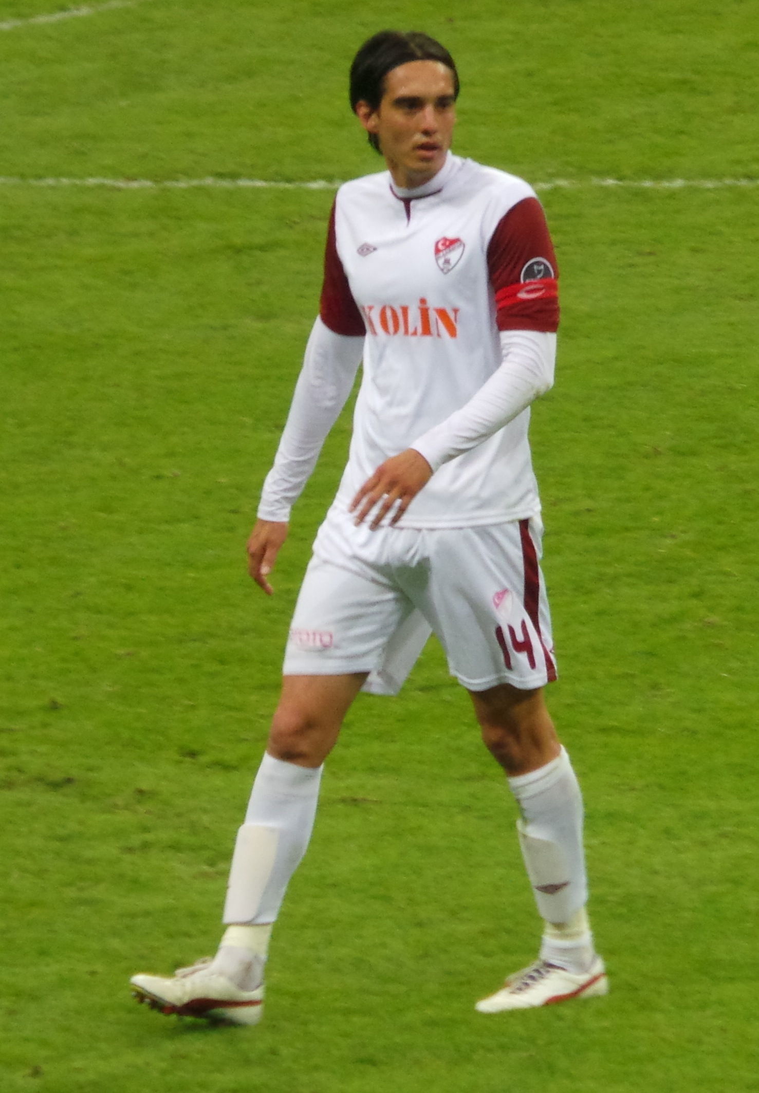 Görkem playing against his old team Galatasaray